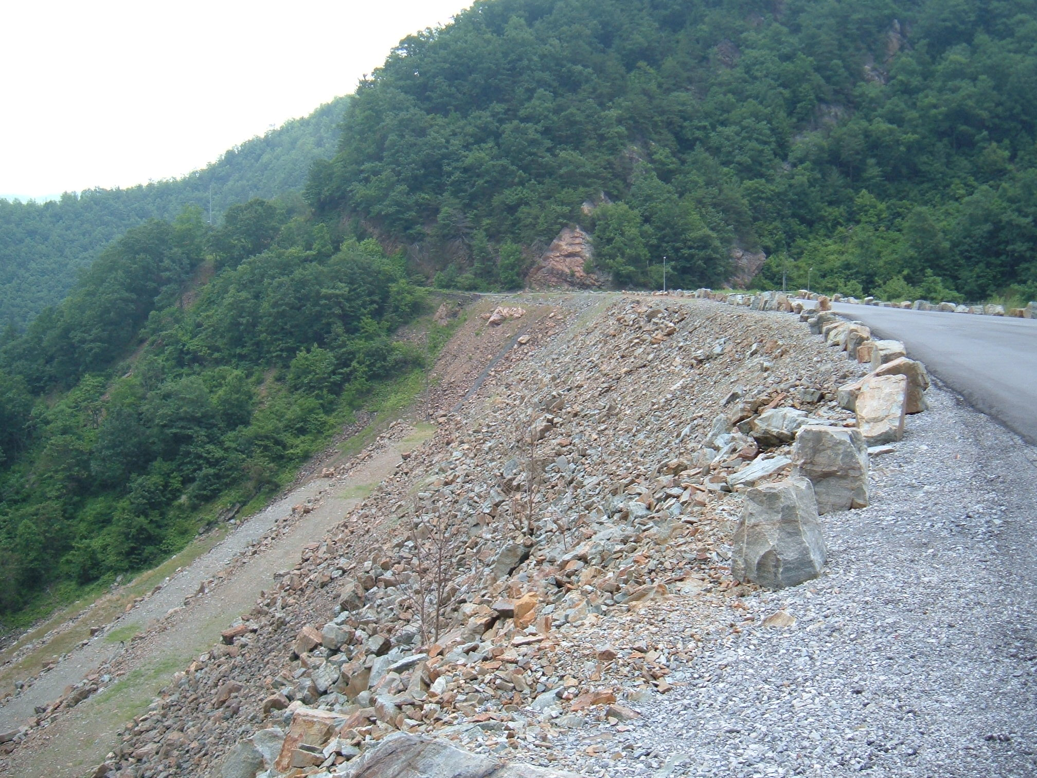 one of the largest earthenworks dams around